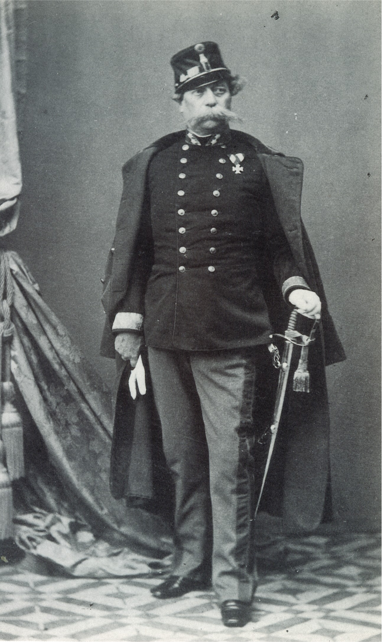 Austrian General Franz Ritter von Hauslab seen in the uniform of a Feldmarschall-Leutnant of the general staff